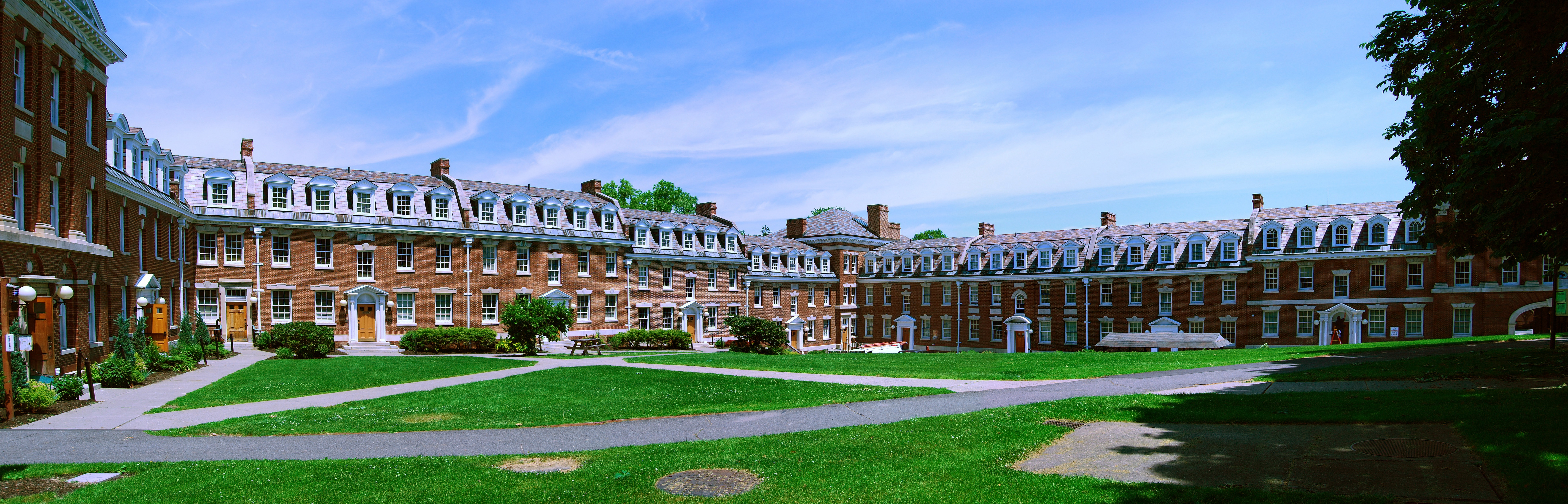 Quad dormitories on the campus of Rensselaer Polytechnic Institute in Troy, New York, United States